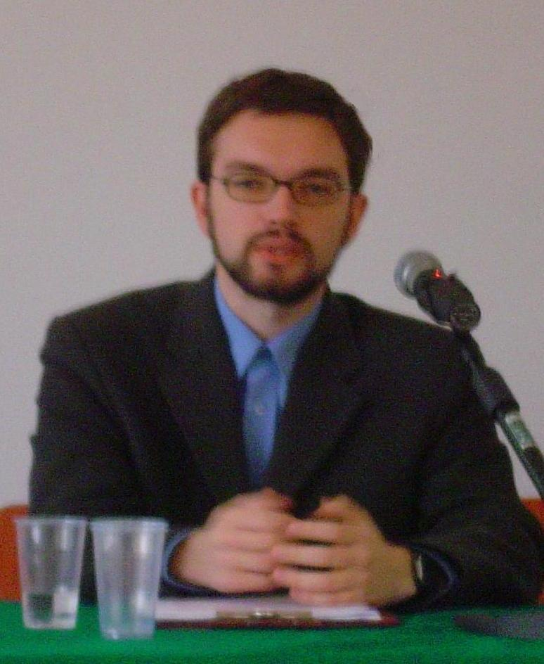 Piotr Napierała - polish historian